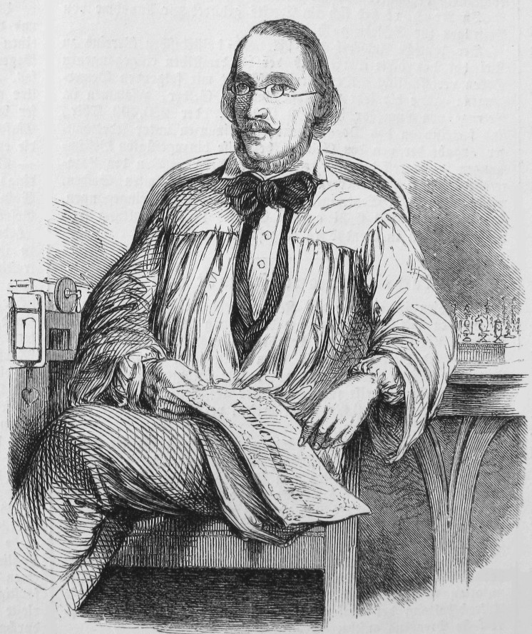 photo from the Elke Rehder private chess collection of an 1850 wood engraving of Vincent Grimm